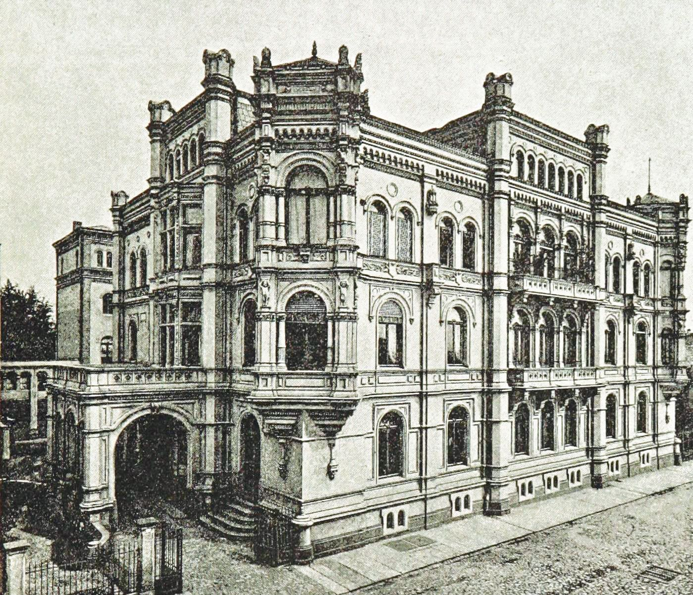 Villa Ernst Keil, Leipzig